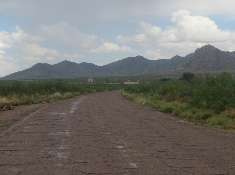 Rivers Road in Rodeo, New Mexico. This an abandoned section of former US 80 that used to cross over a now removed railroad at an overpass. The overpass has since been demolished.